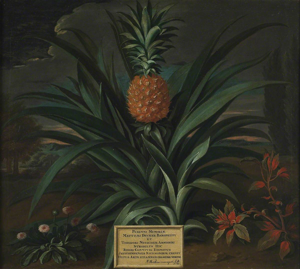 Inscription in Latin translated as: "To the perpetual memory of Matthew Decker, Baronet, and Theodore Netscher, Gentleman. This pineapple [literally ‘cone of the pine’], deemed worthy of the royal table, grew at Richmond at the cost of the former, and still seems to grow by the art of the latter. H[enry] Watkins set up this inscription, A.D. 1720". Collection of the FitzWilliam Museum, Cambridge. Painting of a pineapple grown in the garden at Richmond Green, Surrey, of Sir Matthew Decker, 1st Baronet, grandfather of the museum’s founder.